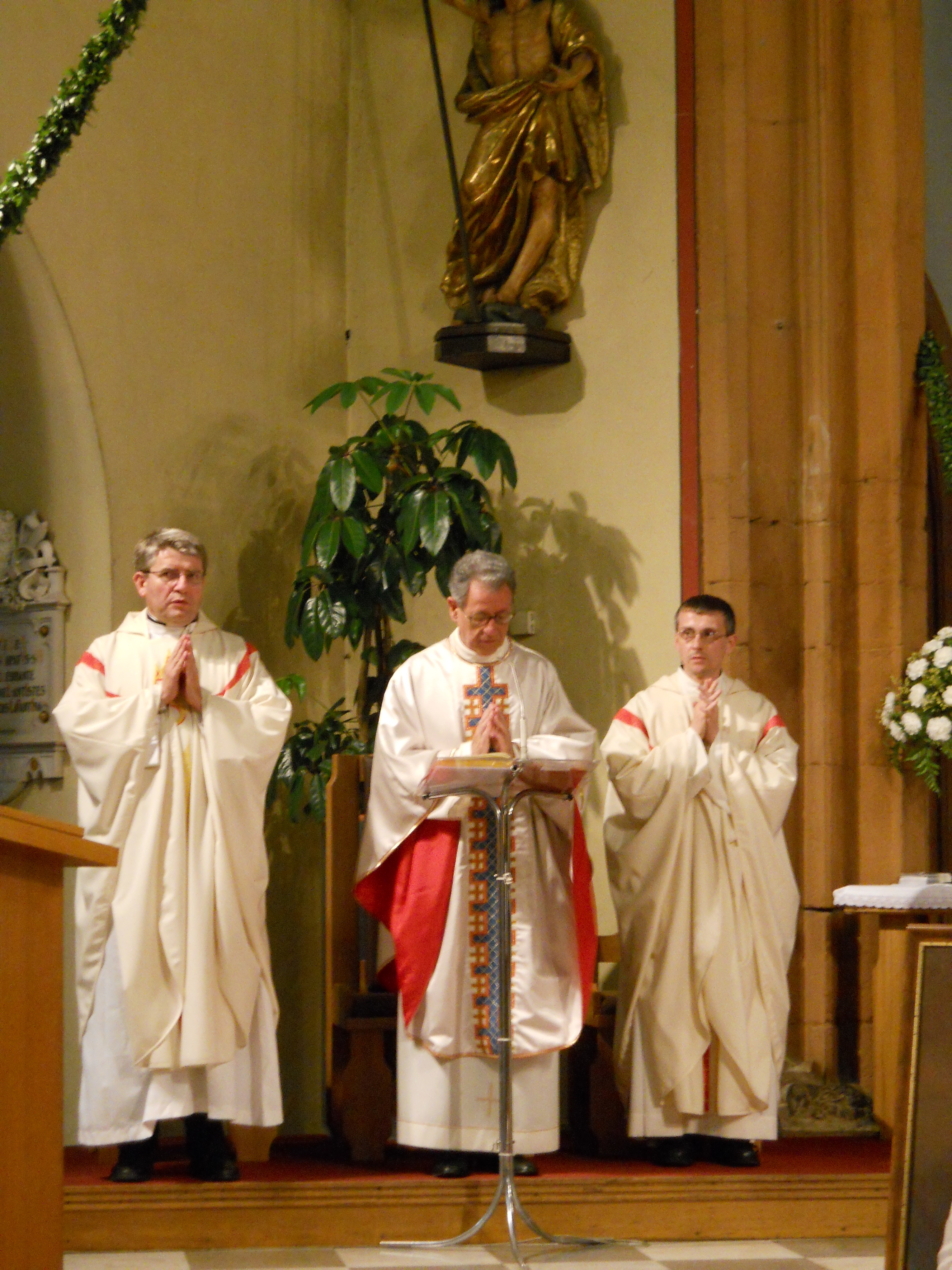 Rafael Arias (in the middle), regional vicar of Opus Dei in Slovenia. The photo was taken during holy mass in Cathedral of Maribor, on 27th June 2013.